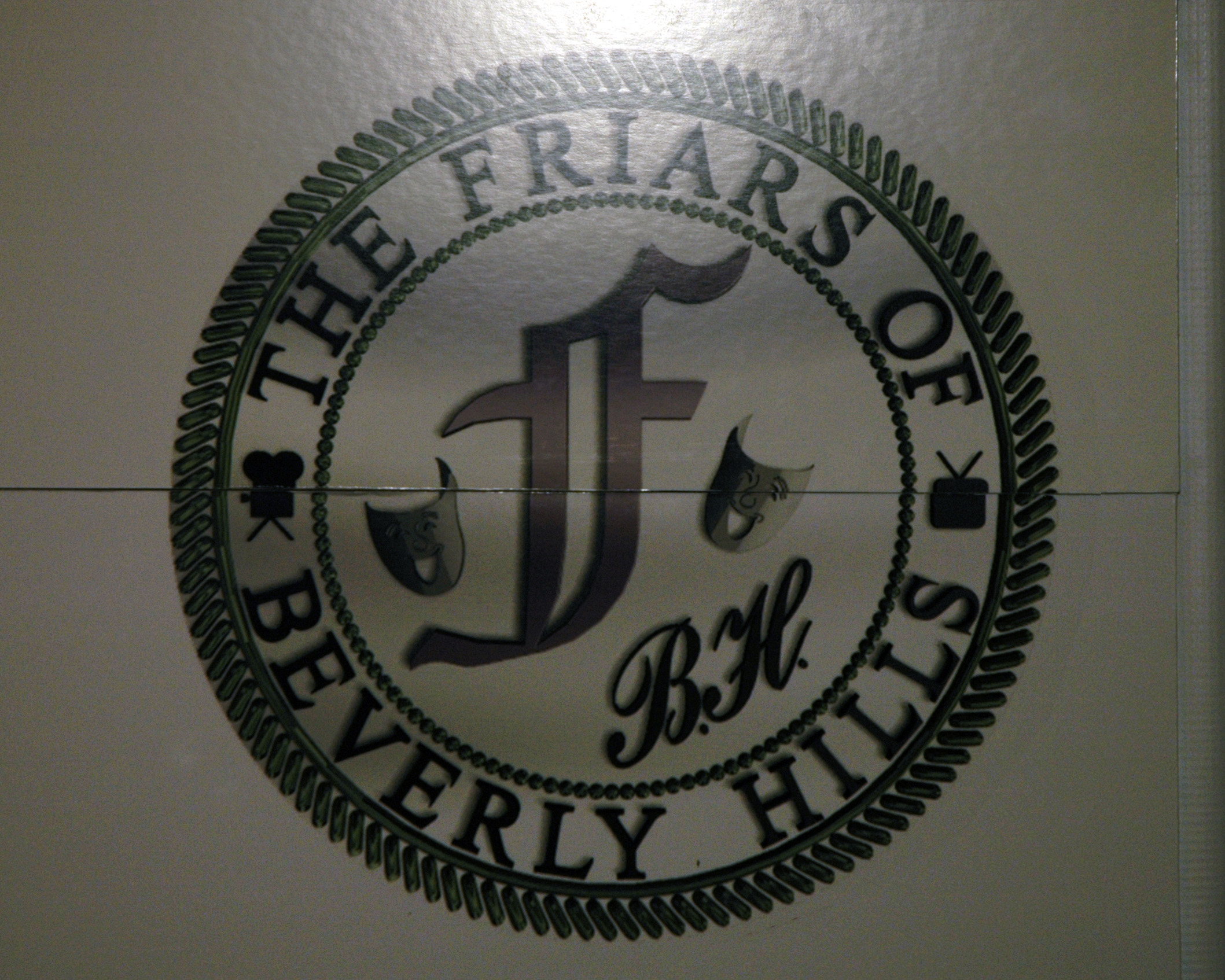 The Friars Club of Beverly Hills Logo - Photo by Glenn Francis of